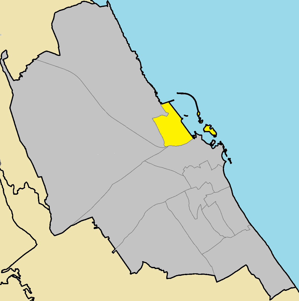 Palaia Ammochostos in Famagusta Municipality (de jure).